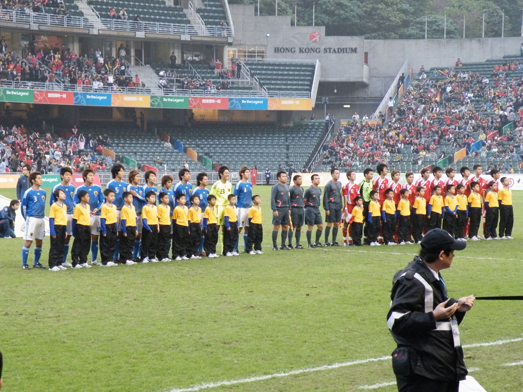 2009 East Asian Games Football Final Match - Hong Kong, China vs Japan at Hong Kong Stadium on 2009.12.12.